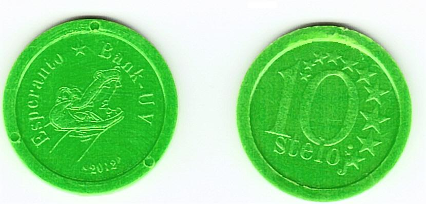 10-Stelo plastic coin. In the front of the coin appears crocodile, it is because this coin is the most used in the bar, so after a while the persons start to "krokodili" (speak in the national language)Interlingua: Moneta de 10 steloj (stellas). Sur le reverso del moneta appare un crocodilo, isto es perque iste moneta es le plus usate in le taverna, ubi post biber le personas comencia a parlar in lor linguas national (krokodili in esperanto).